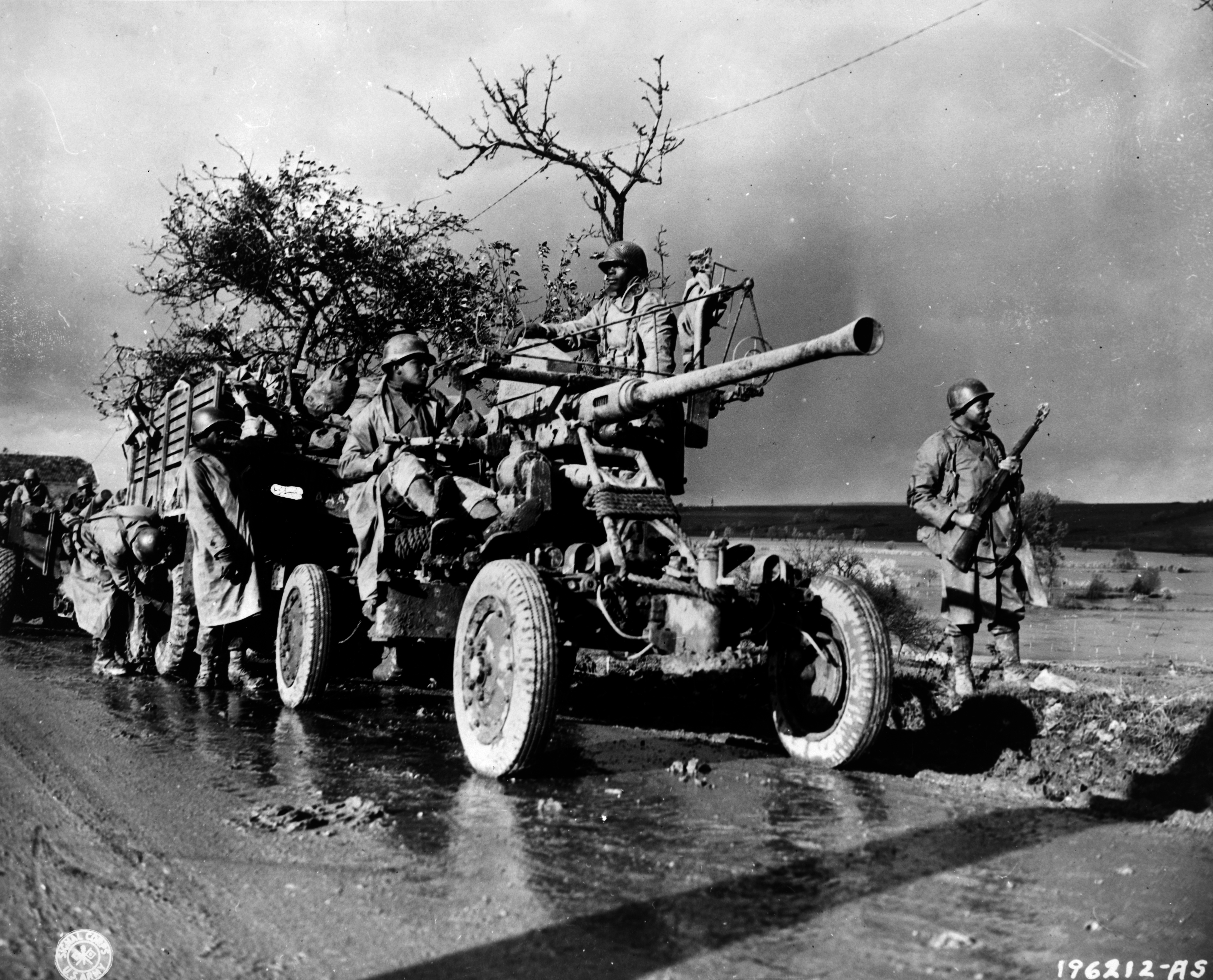 Members of an artillery unit stand by and check their equipment while the convoy takes a break. Photograph shows African American artillery troops on march in Belgium.